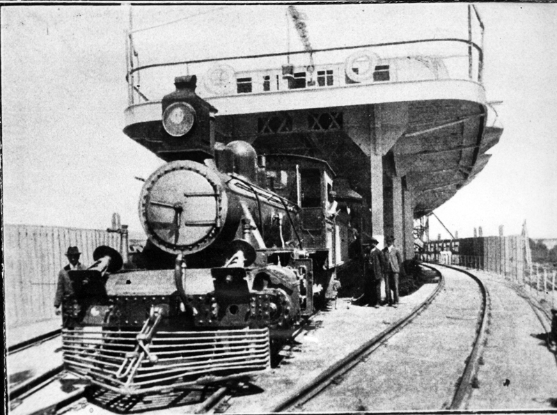 Train ferry unloading a steam locomotive on the Urquiza Railway after crossing the Parana River c.1920.